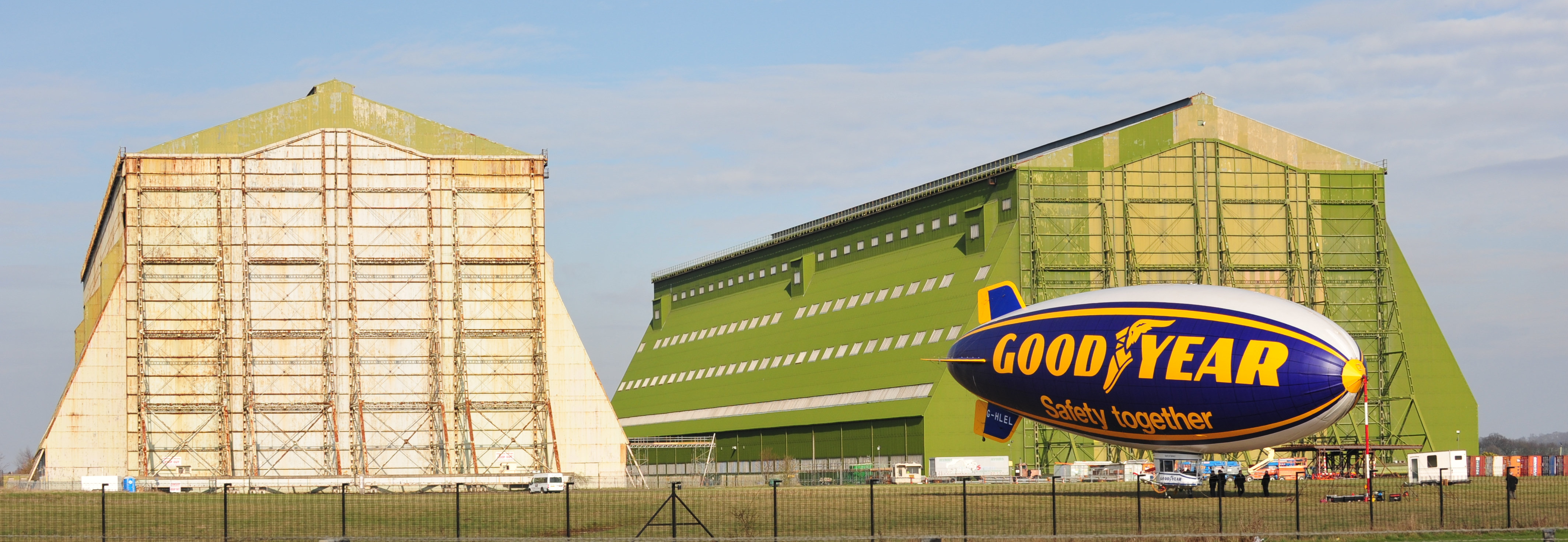 Goodyear Blimp 'Spirit of Safety I' (G-HLEL) moored at Cardington Airship Sheds, Bedfordshire, UK. A grey semi-trailer (articulated lorry) can be seen under the tail. It was parked just in front of the building, Shed 2, and gives some idea of the sheer scale of the building.